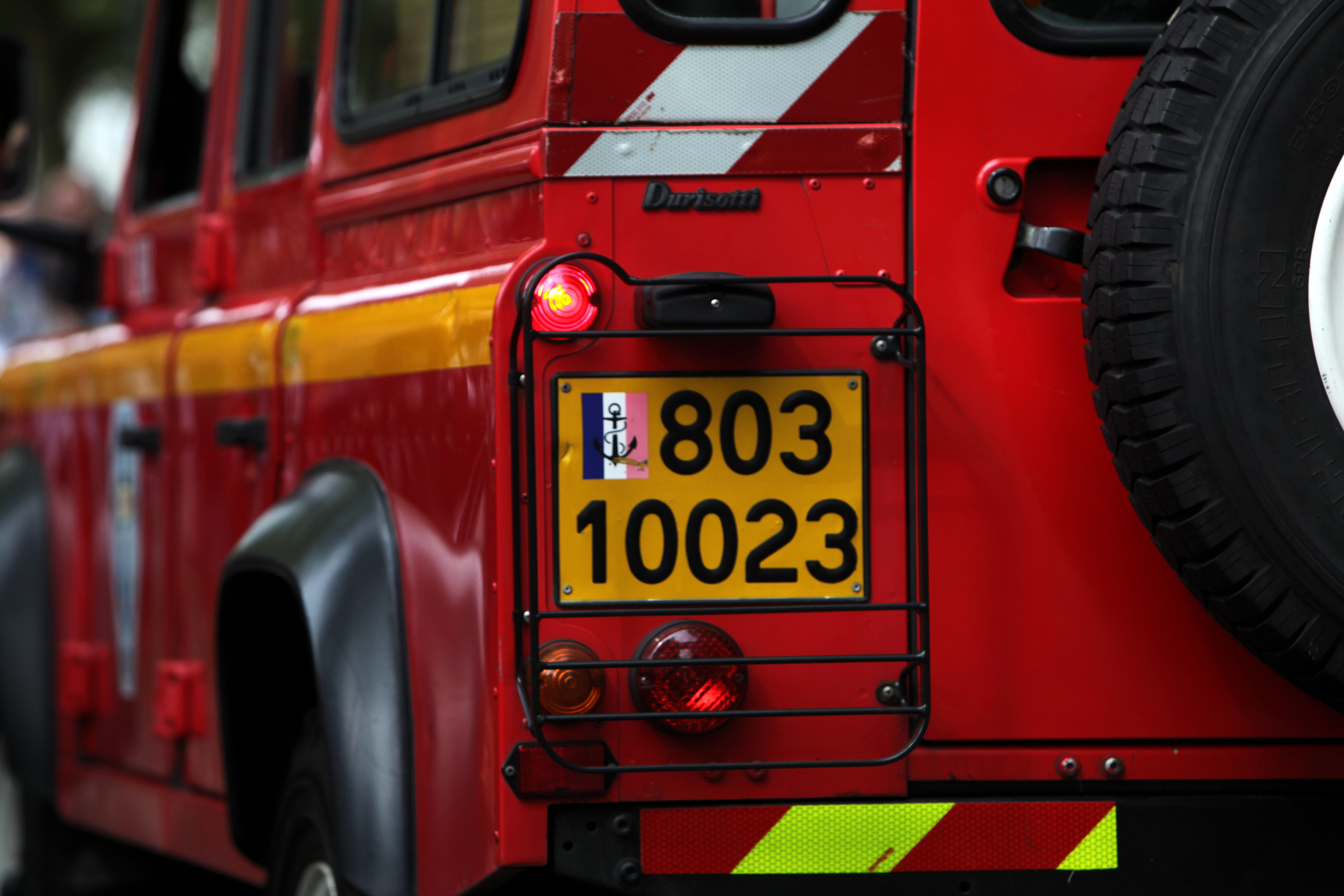 Marins-Pompiers of the fire brigade of Brest Naval Base attending ceremonies of the 14 July 2015 in Brest